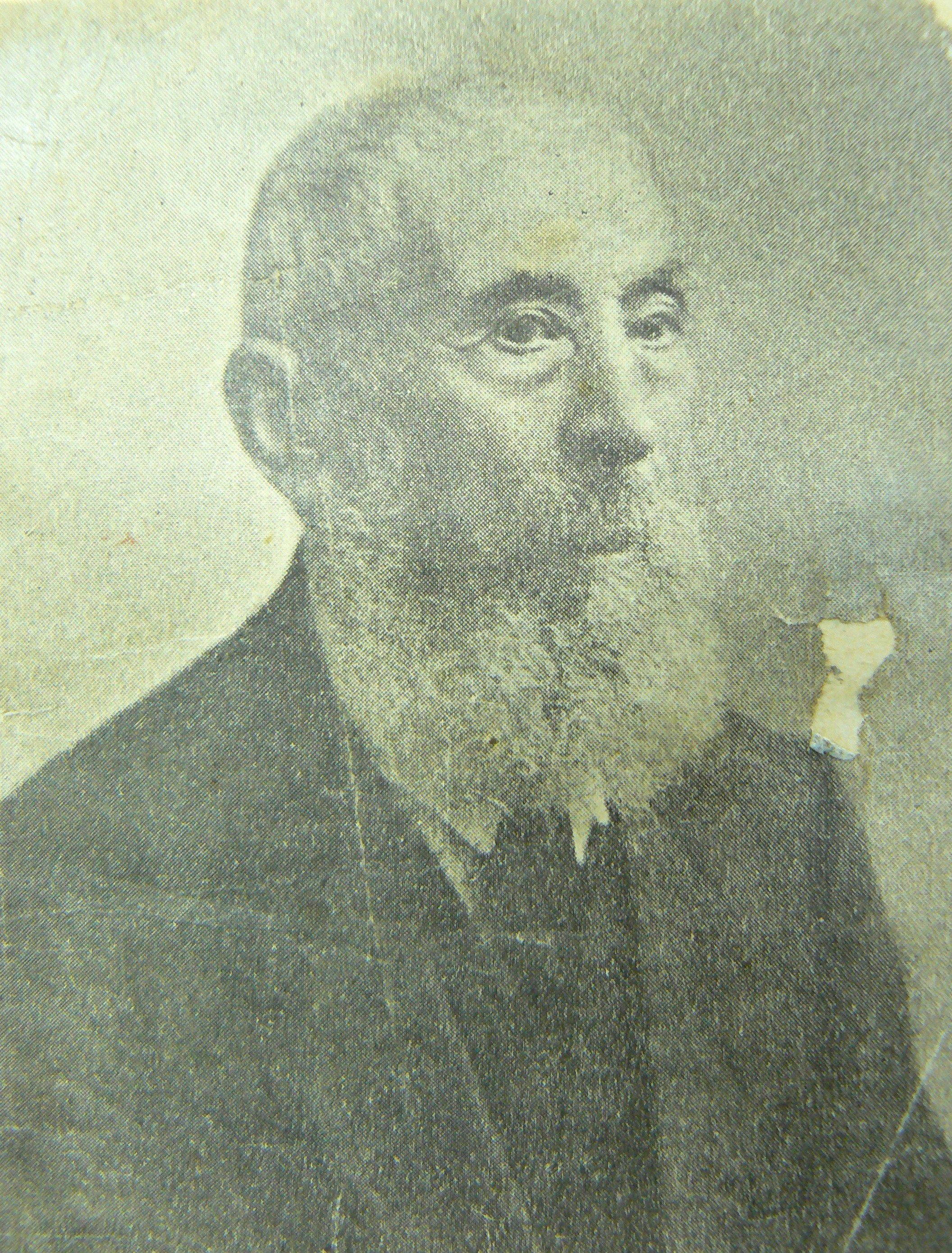 Hristo Botev's comrade Mladen Pavlov (1848-1935). Exhibit of the Vratsa History Museum